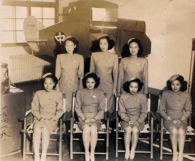 China National Aviation Corporation (CNAC)'s female flight attendants in 1947. 中文（中国大陆）: 1947年，中国航空公司第一空勤组的空姐